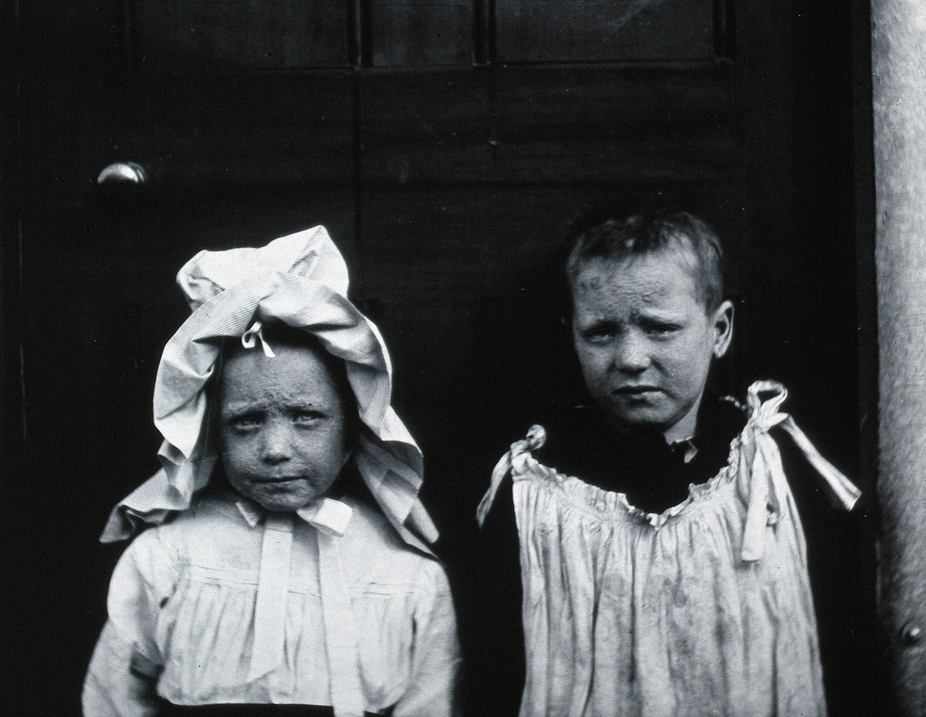 Gloucester smallpox epidemic, 1896: two convalescent children. Photograph by H.C.F., 1896. Iconographic Collections Keywords: i. c. collection; diseases: smallpox; i.c.; diseases: smallpox, 1896; name